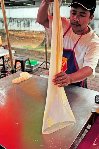 Roti canai being prepared.